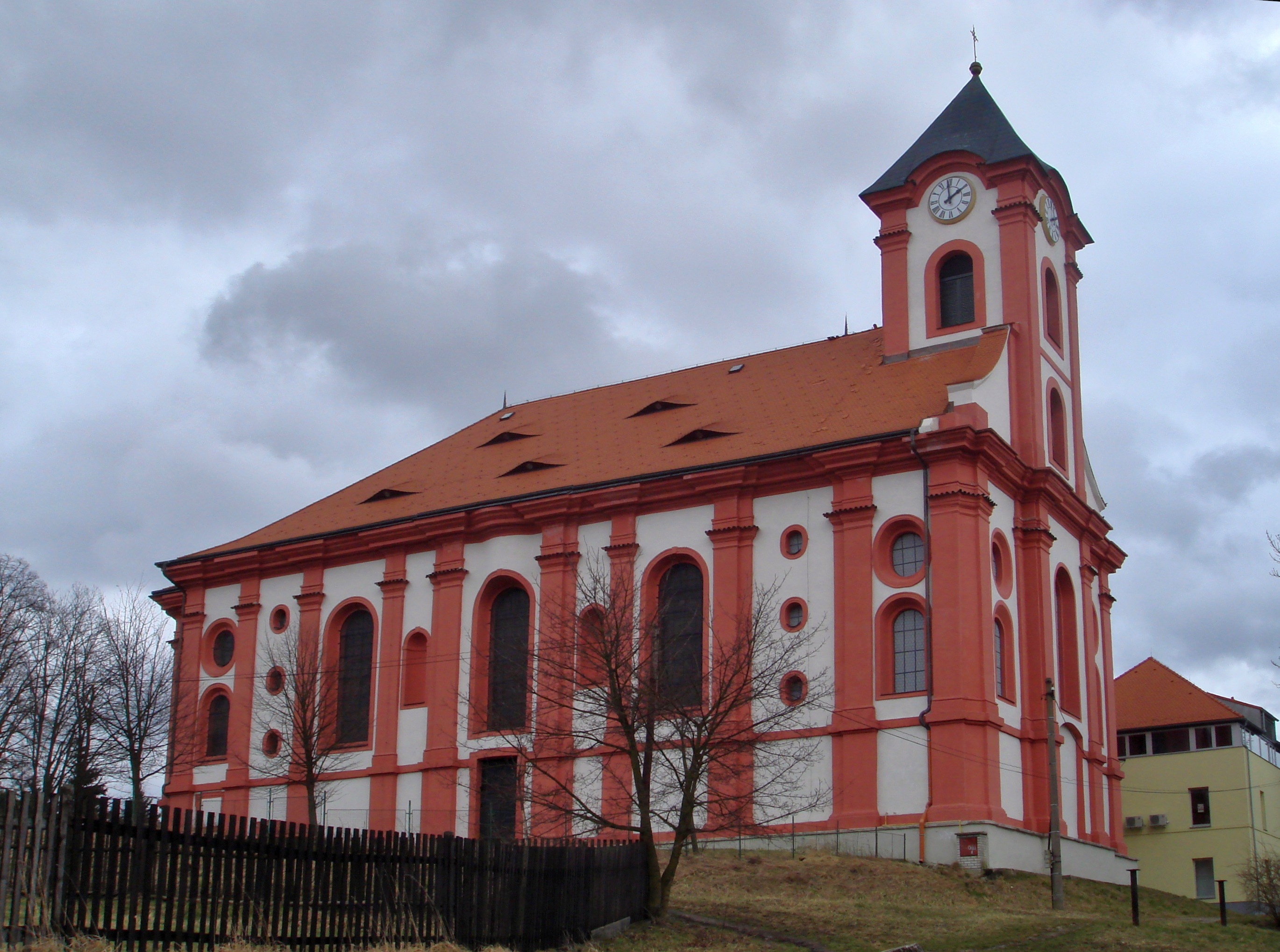 The Church of Saint Lawrence in Chodov (Karlovy Vary Region, Czech Republic).